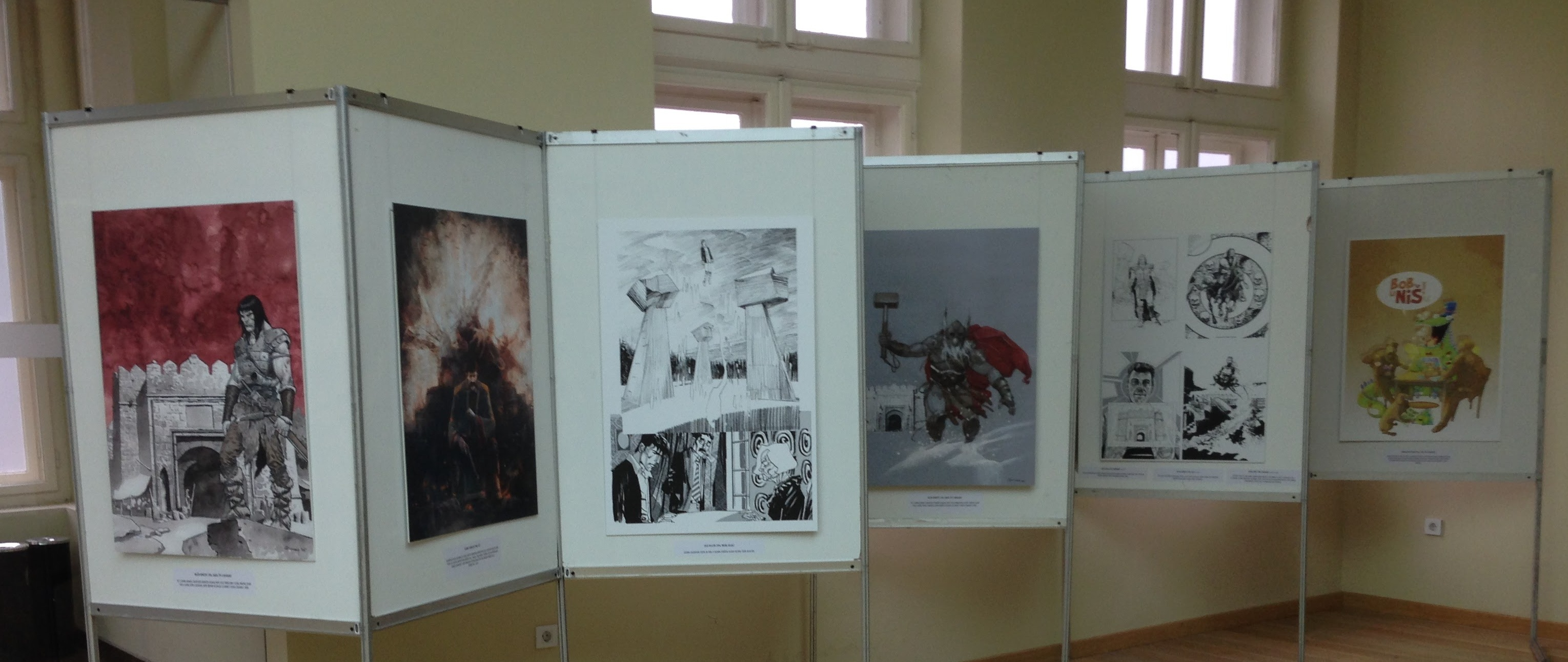 "Striporama fest", Niš 2016., Serbia